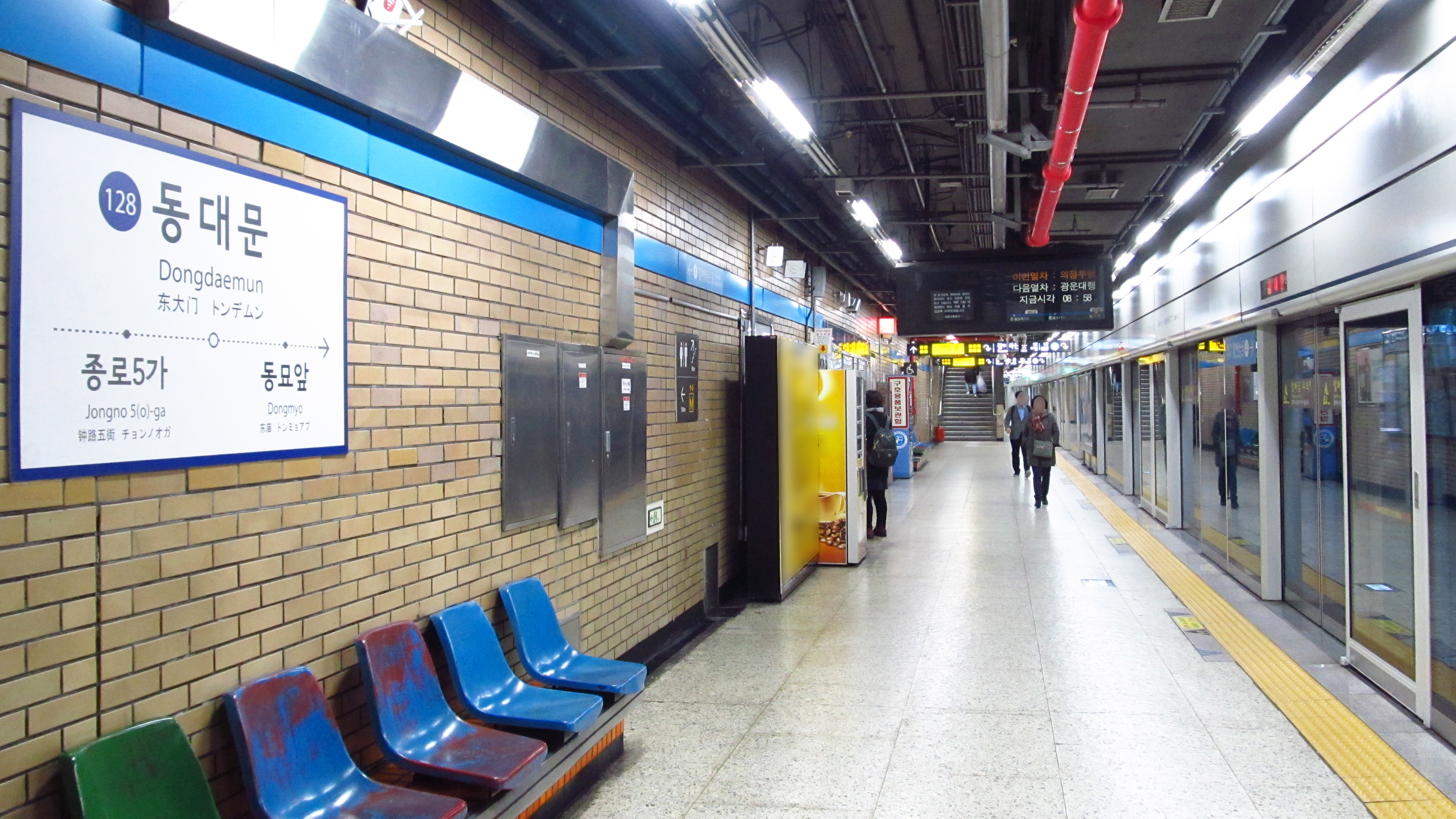 The platform at Dongdaemun Station on Seoul Subway Line 1 in Jongno-gu, Seoul, Republic of Korea(South Korea)